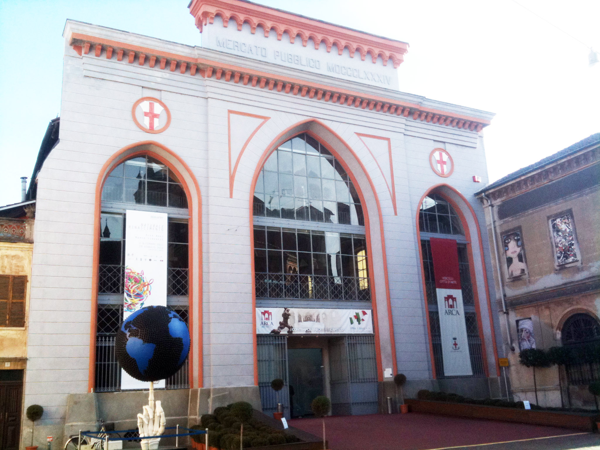 Chiesa S. Marco - Arca - Vercelli